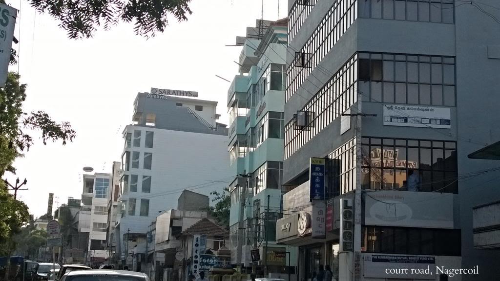 Nagercoil opp SLB